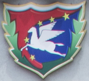 5th Air Mobility Wing, Republic of Korea Air Force